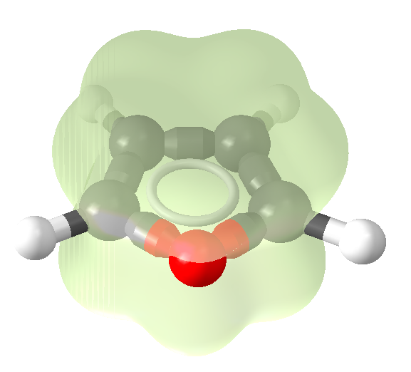 Furan - 3D model with painted p-orbitals.